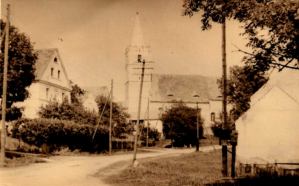 Oppersdorf (nowadays Wierzbięcice) in Upper Silesia in the twenties.